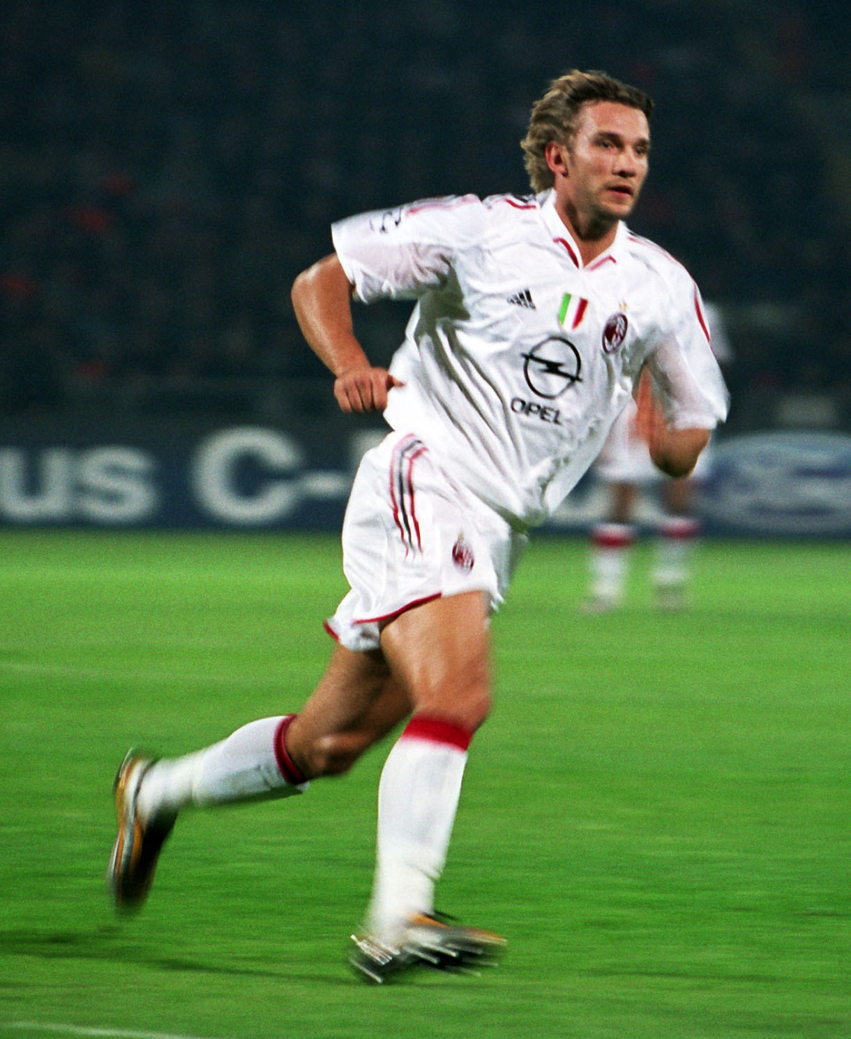 Ukrainian footballer Andriy Shevchenko with AC Milan, 2004.